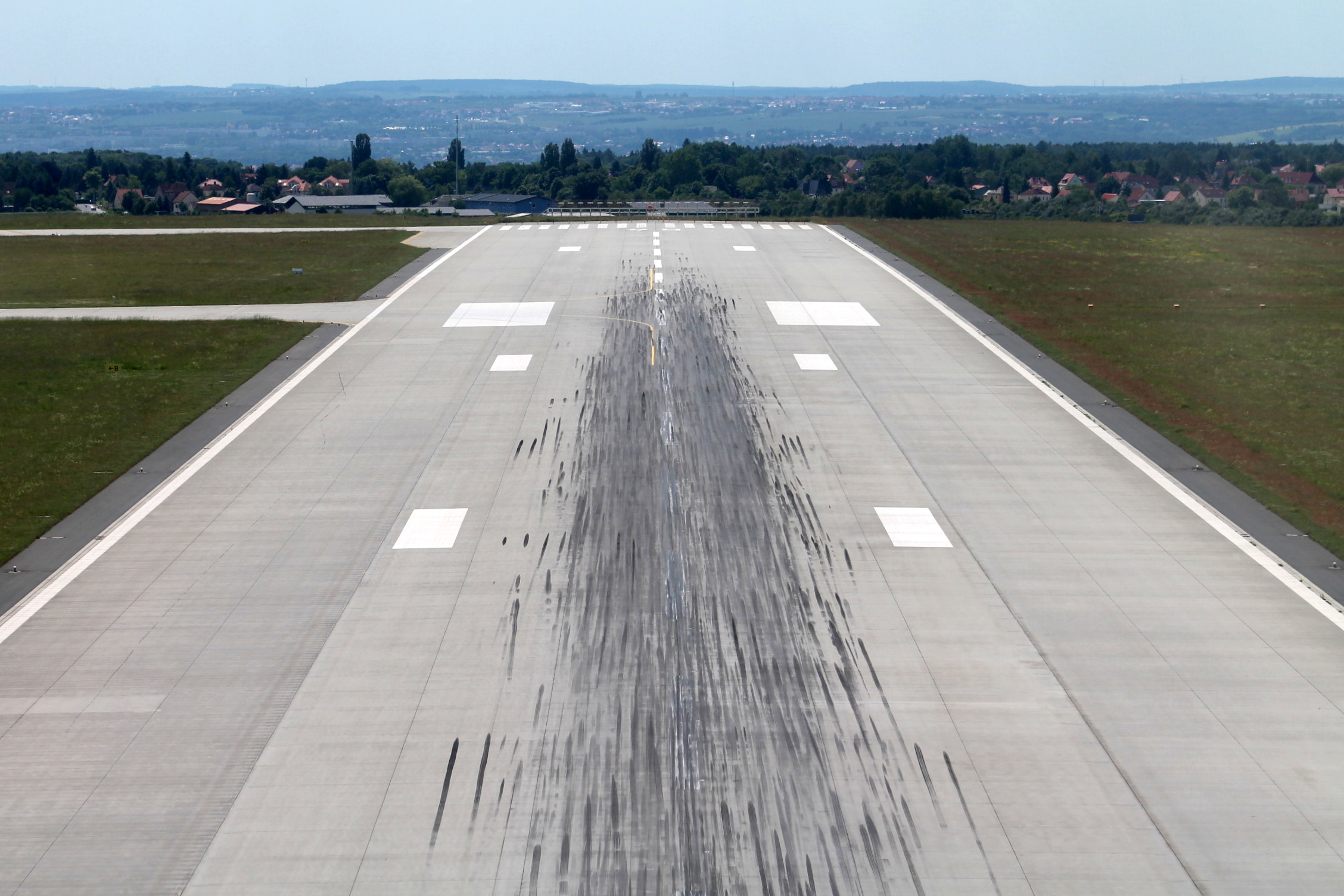 Take off from Airport Dresden International, in the backround the Dresden Elbe Valley, view south-southwest